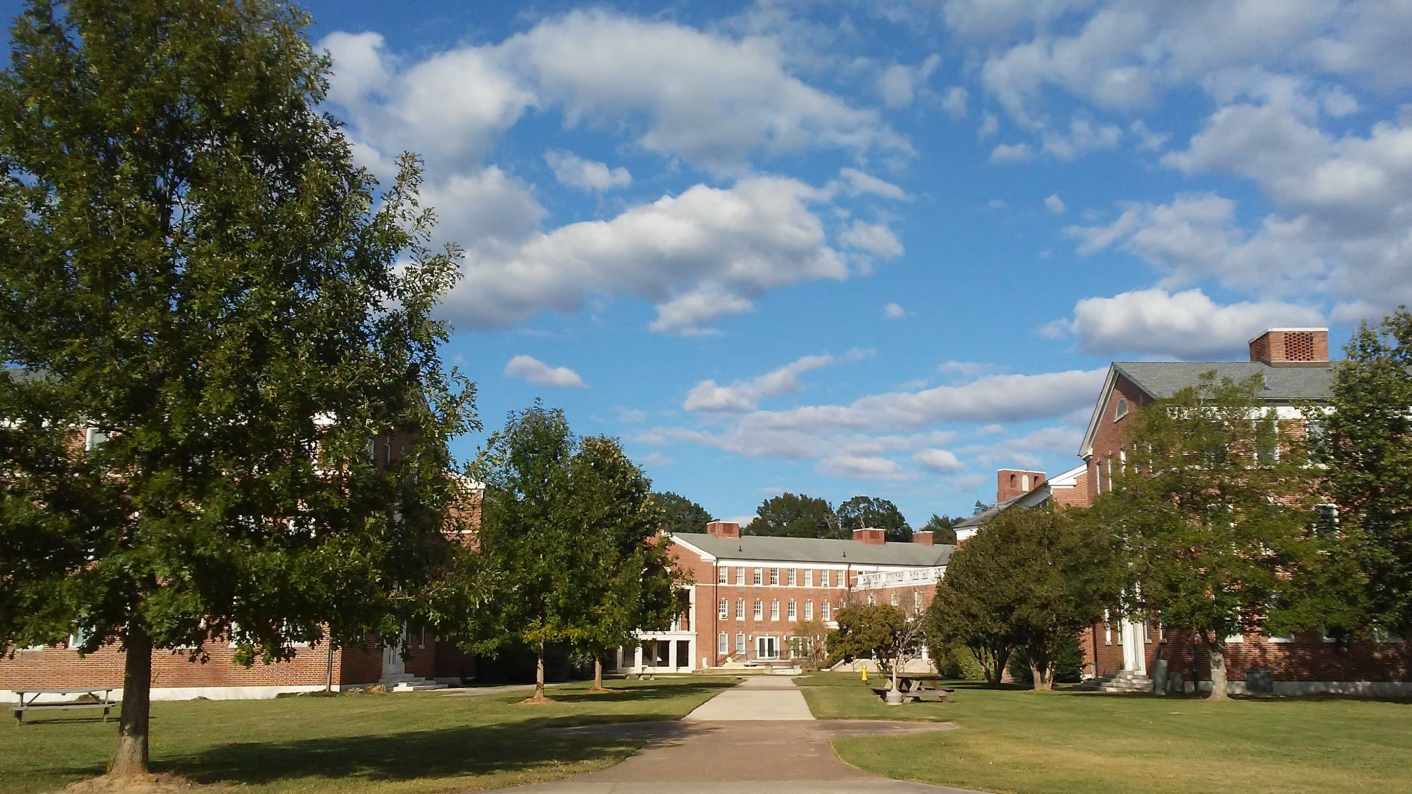 The residential courtyard featuring the Loggia in the distance